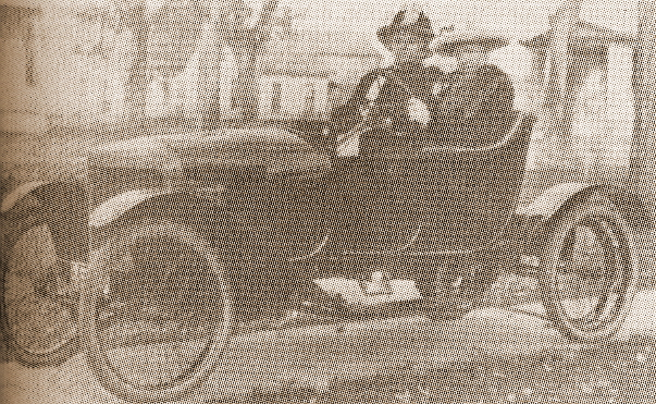 1914 Fenton Cyclecar